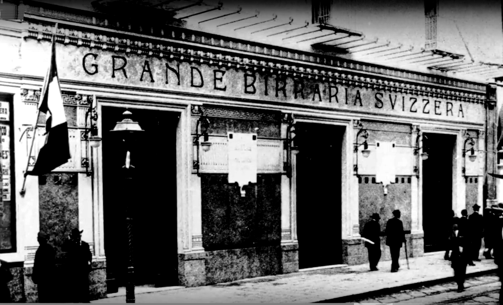 Catania, La Grande Birraria Svizzera, facciata